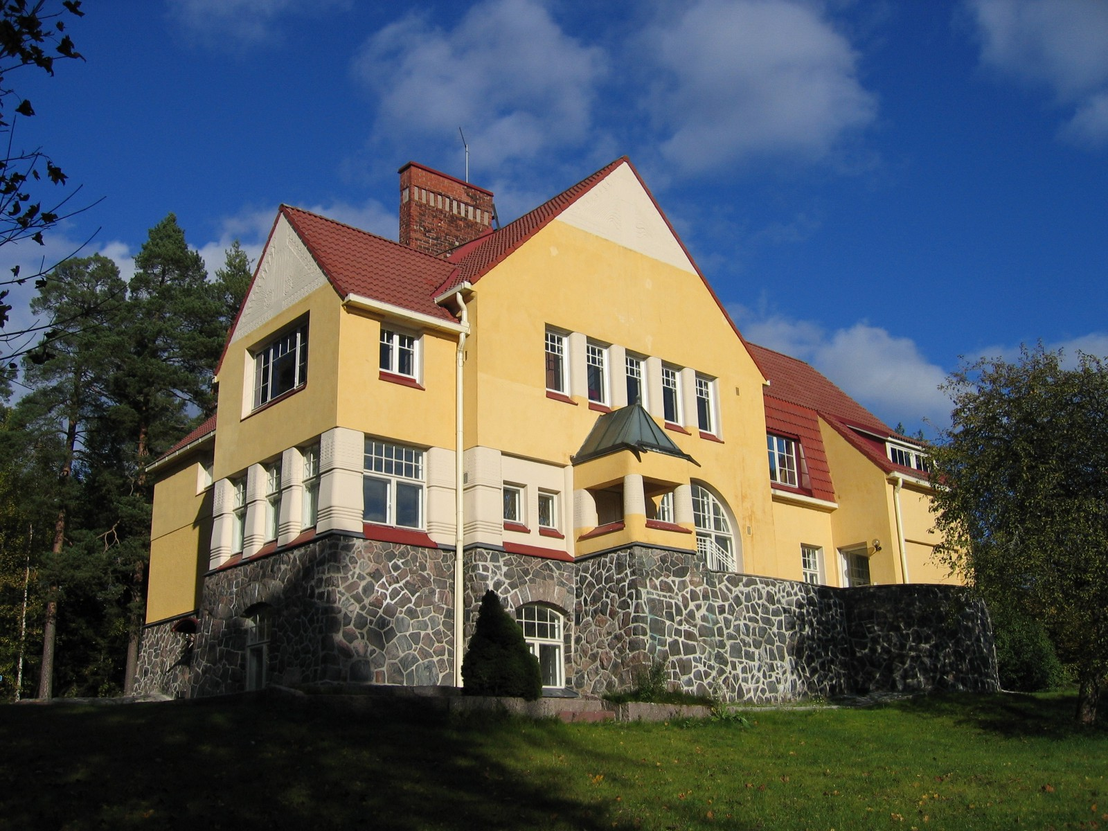 Villa Vallmogård in Kauniainen, Finland. The building is used for cultural events. Originally built as a private home.